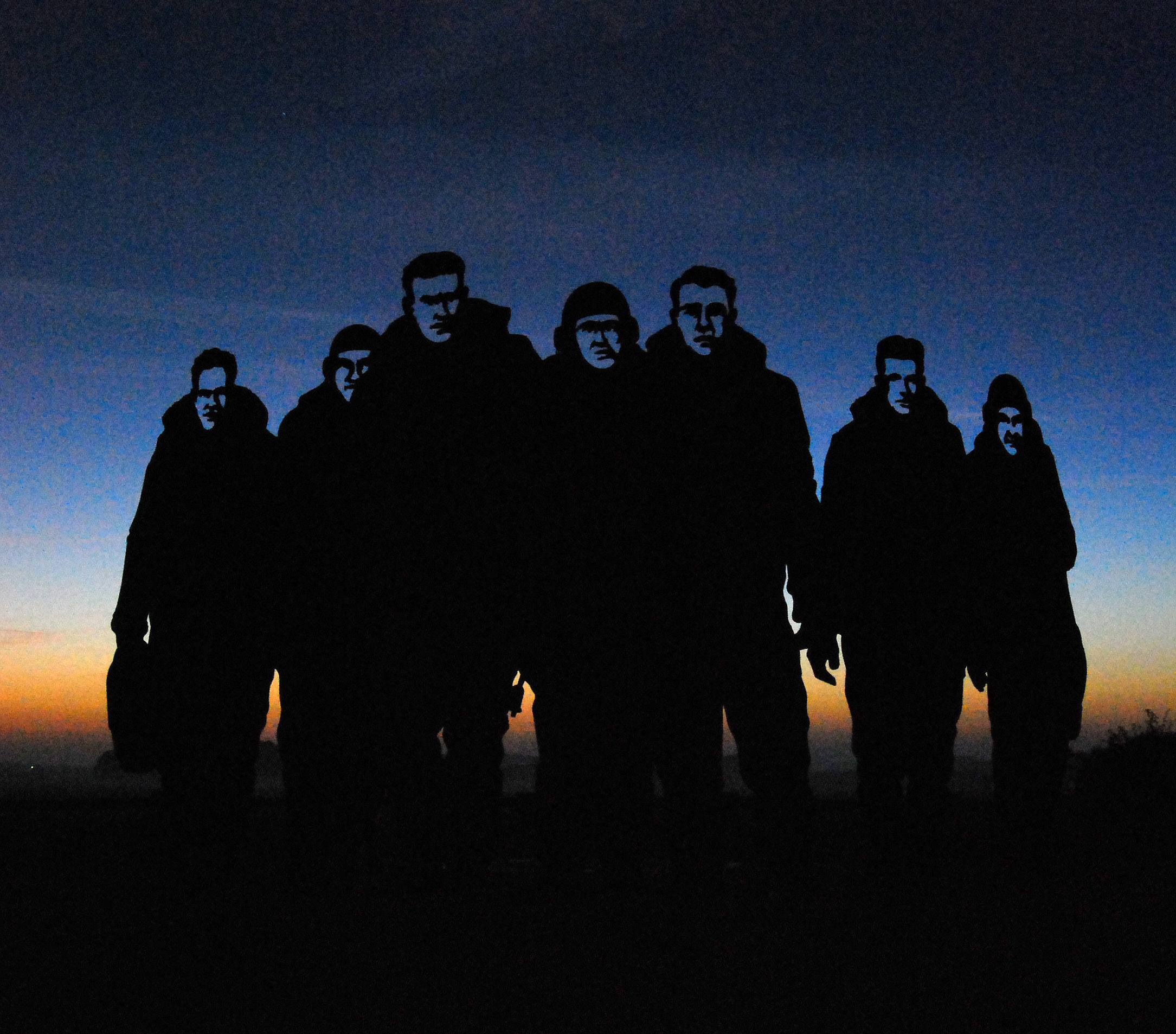 Memorial Sculpture the 158 Squadron Airmen, near Lissett, East Riding of Yorkshire, England.